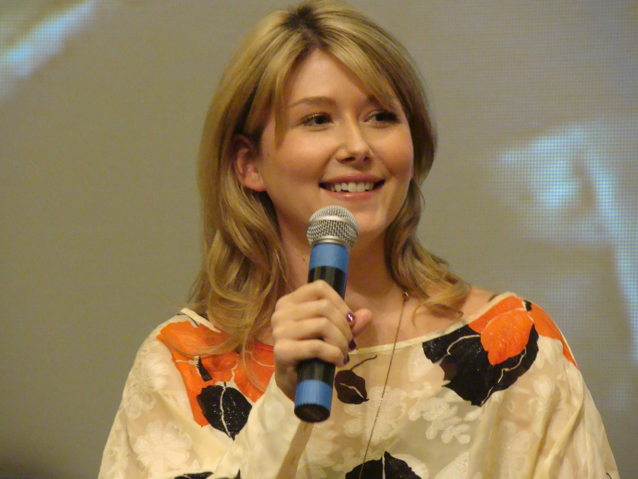 Jewel Staite